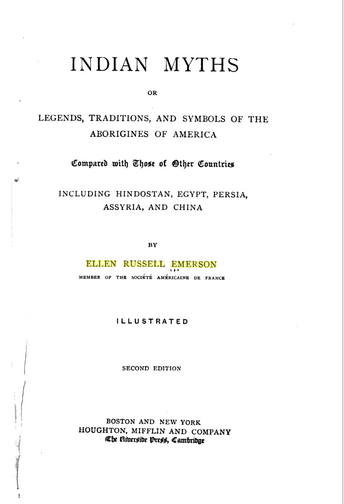 Indian Myths: Or, Legends, Traditions, and Symbols of the Aborigines of America Compared with Those of Other Countries, Including Hindostan, Egypt, Persia, Assyria, and China By Ellen Russell Emerson